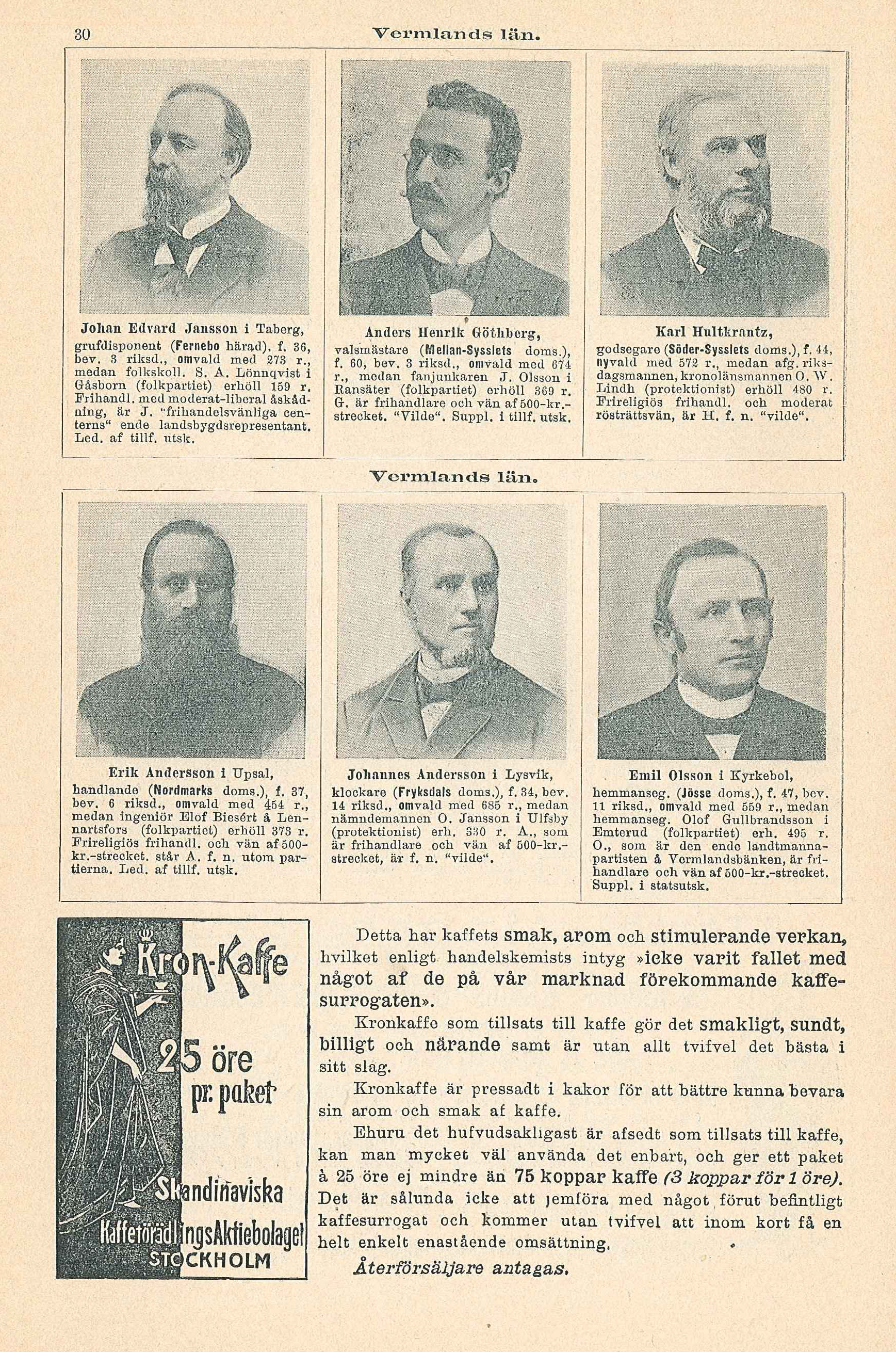 Page 30 of an album featuring portraits of all the members of the second chamber of the Swedish parliament (Sveriges riksdag) elected in 1897. This page featuring parts of the members representing the county of Värmland.